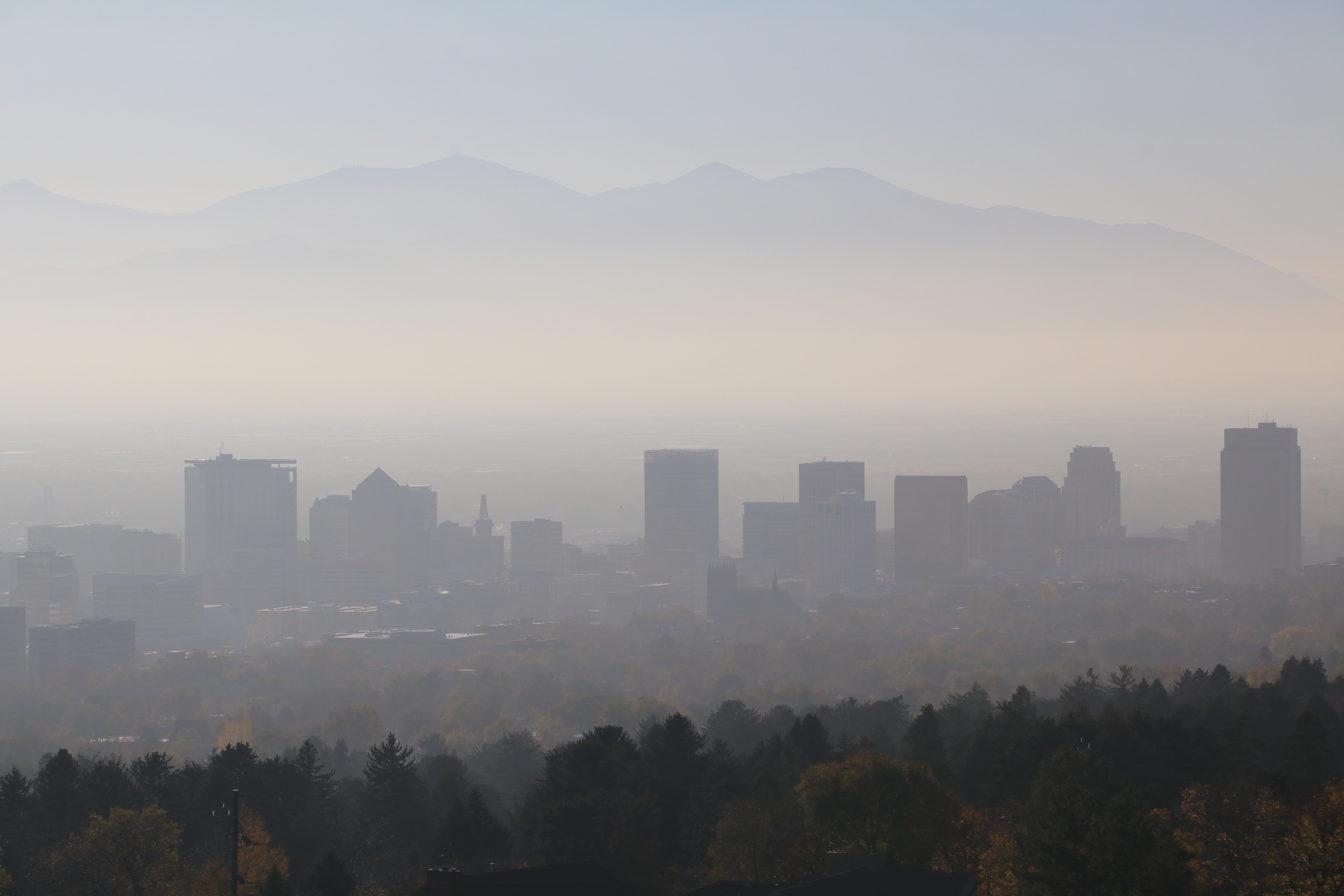 Smog and haze hangs over the Salt Lake valley on a warm, sunny November Saturday.